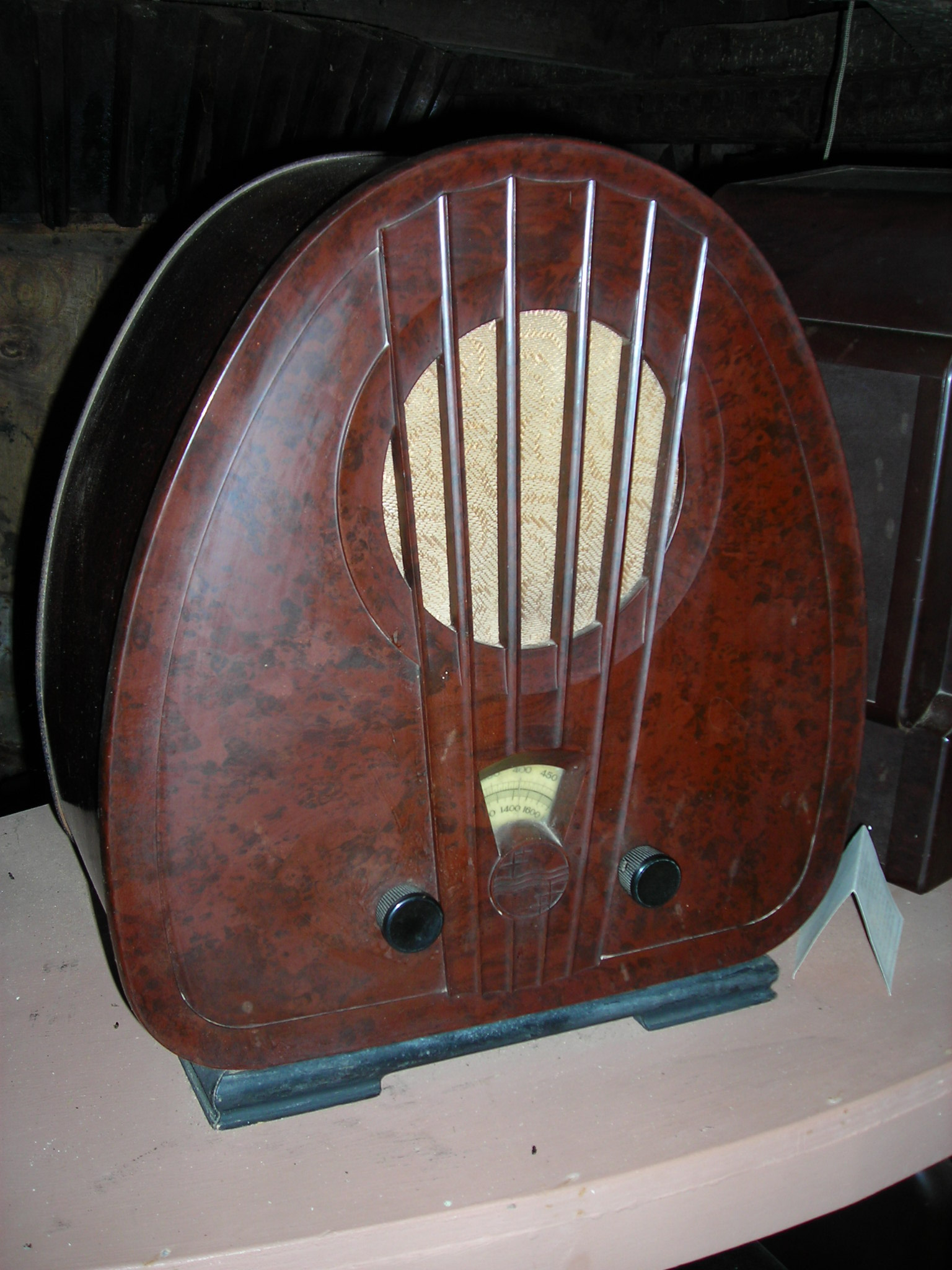 Picture of a Philips radio in bakelite shell. The model is, quite likely, the Superinductance 834 [1], 1933/1934 model year, or its siblings in the same shell. These were five-tube TRFs (not superhets). Taken in September 2007 by Robert Neild (Robneild) at the Bakelite Museum, Orchard Mill, Williton, Somerset, UK.Ŗ